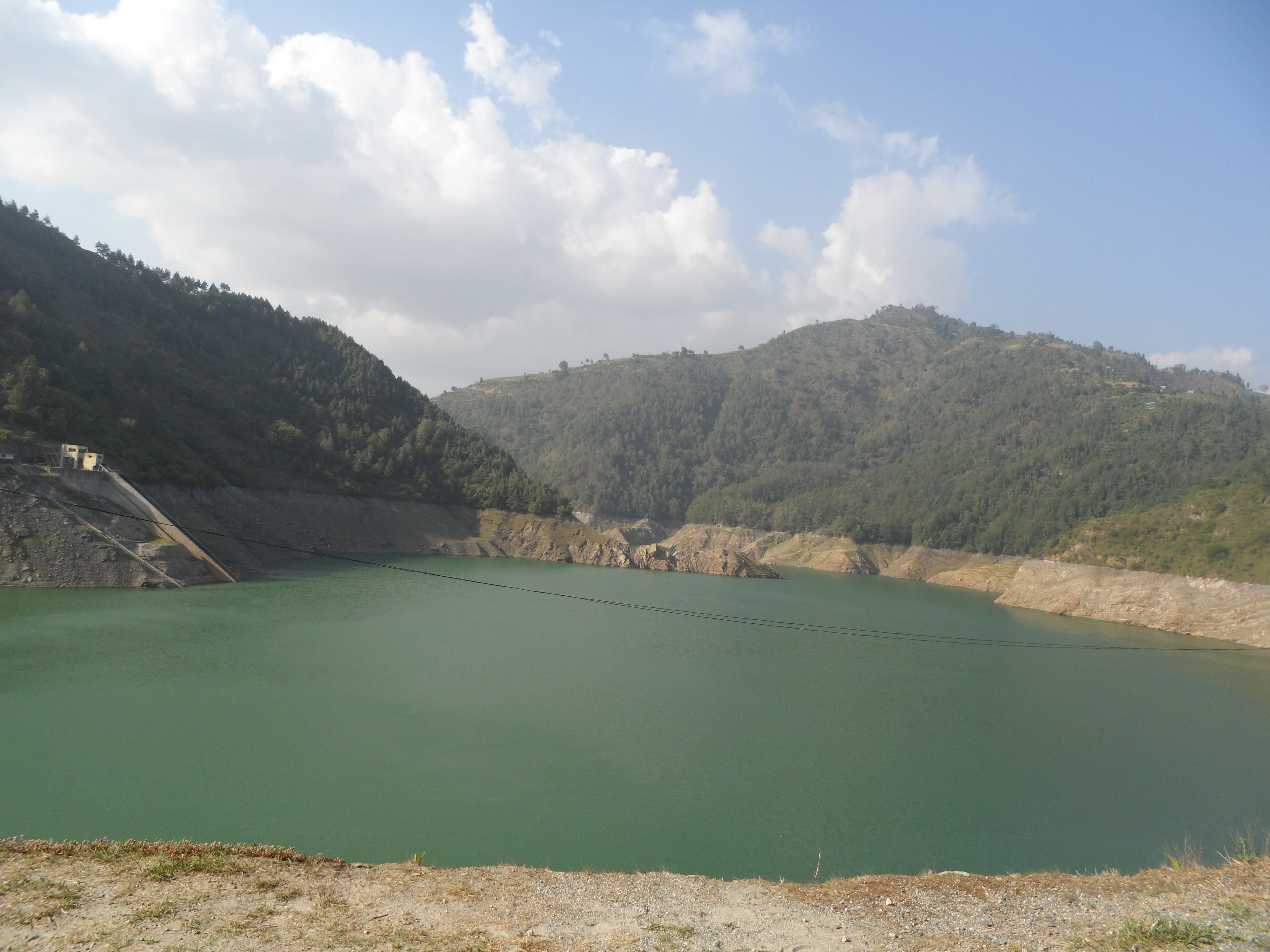 Kulekhani Reservoir